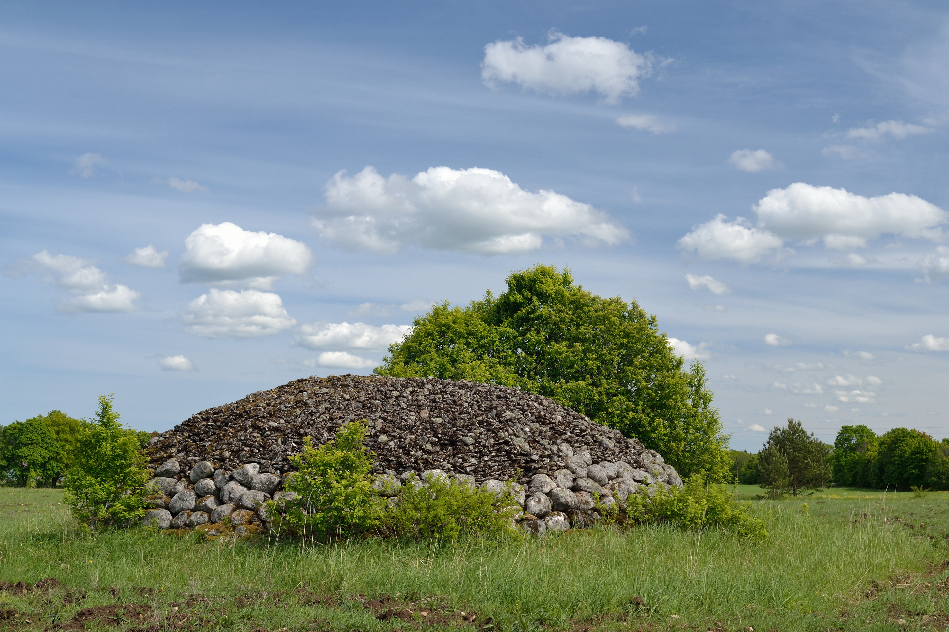 According to the folk stories, these stones were gathered from the fields as a gratitude to local baron von Pahlen, who give out grain for the people during the time of the Great Famine of Estonia 1695–1697 (also known as the great starvation).